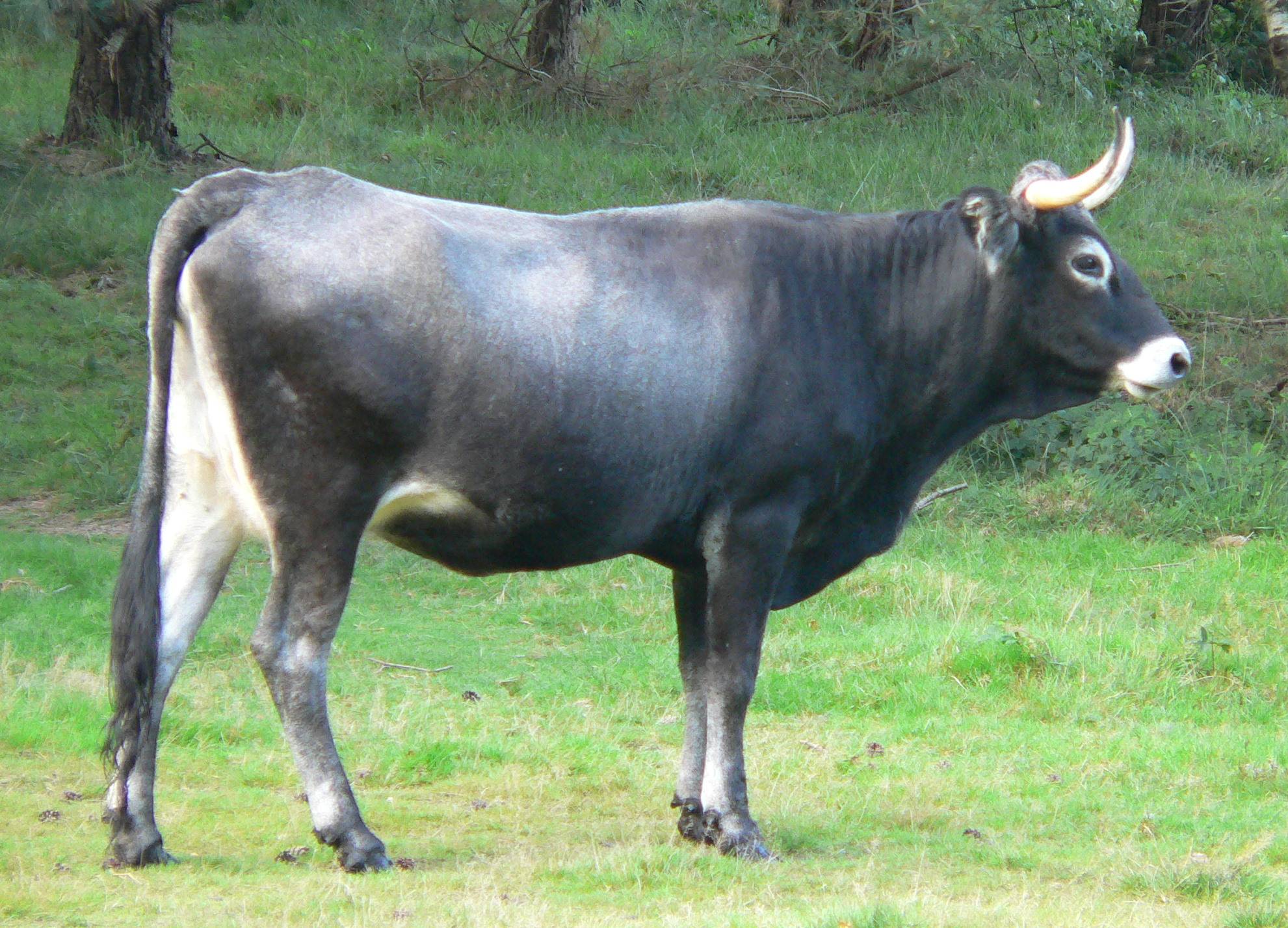 Tudanca were recently imported to the Netherlands to make the heathland more diversified and prevent grass and trees becoming the dominant flora.